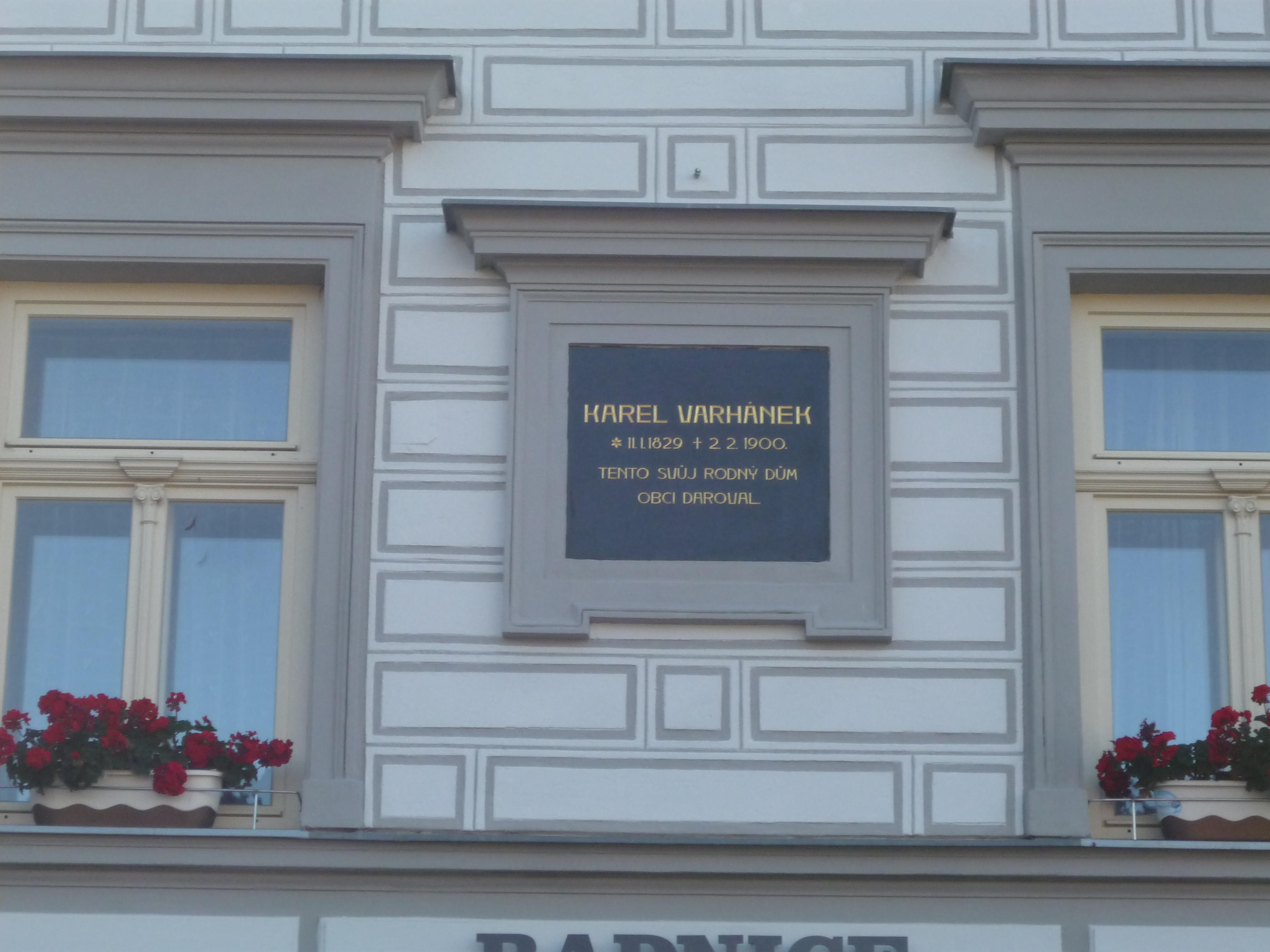 Plaque remembering Karel Vahránek (Carl Warhanek), who donated the building to the munucipality.